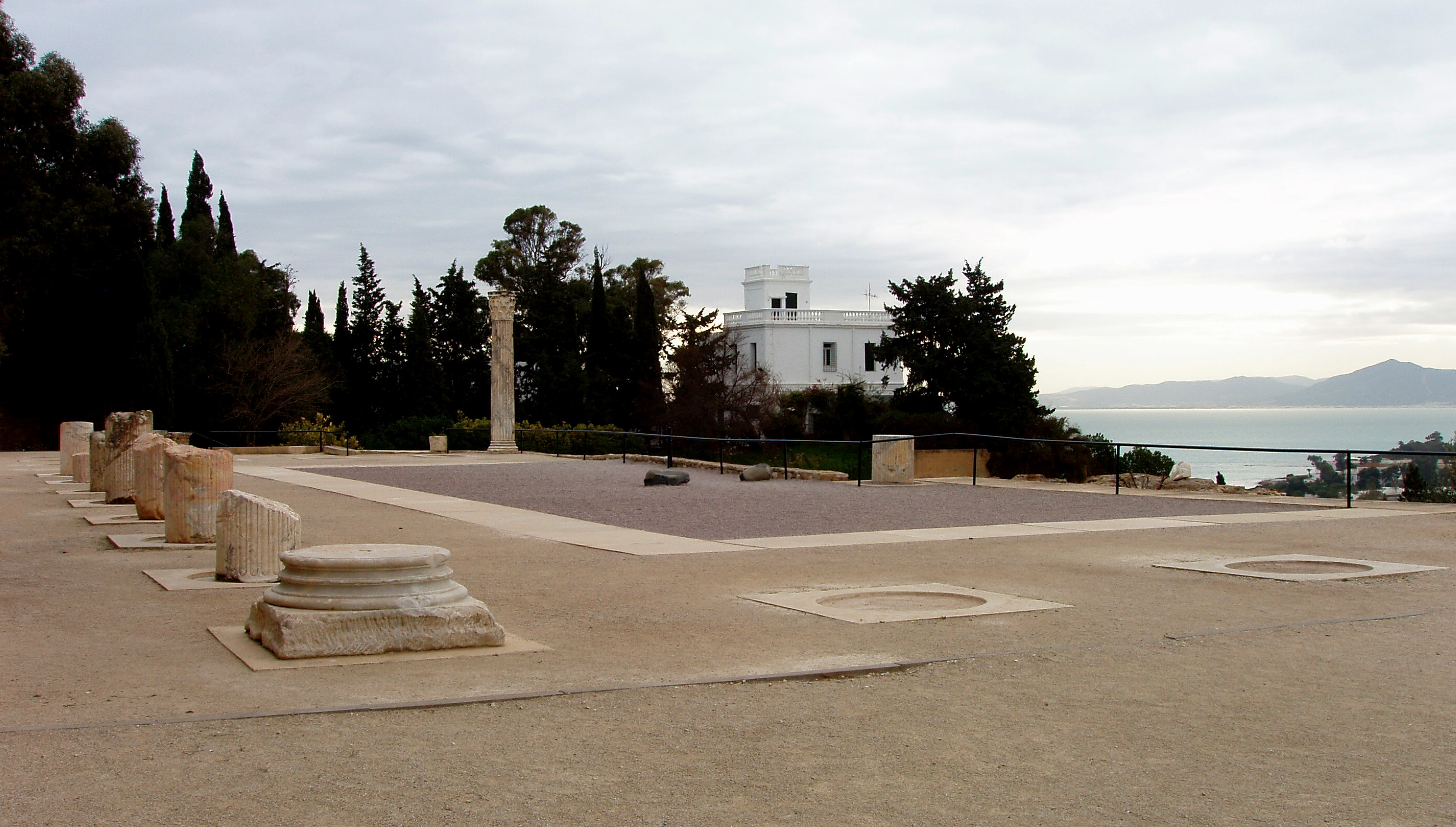 Carthage capitoline temple in front of the National Museum